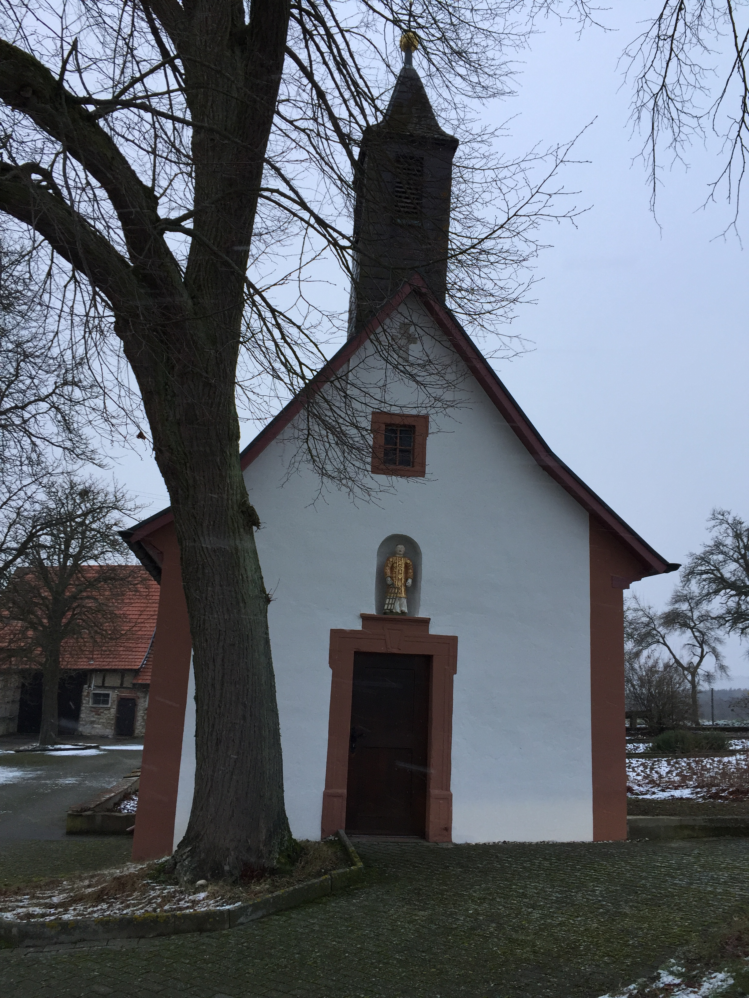 The photo has been taken in Januar 2018